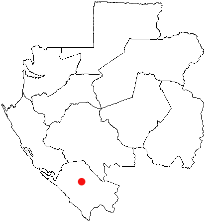 Tchibanga, Gabon Location Map; created with the GIMP. Made by User:Acntx.